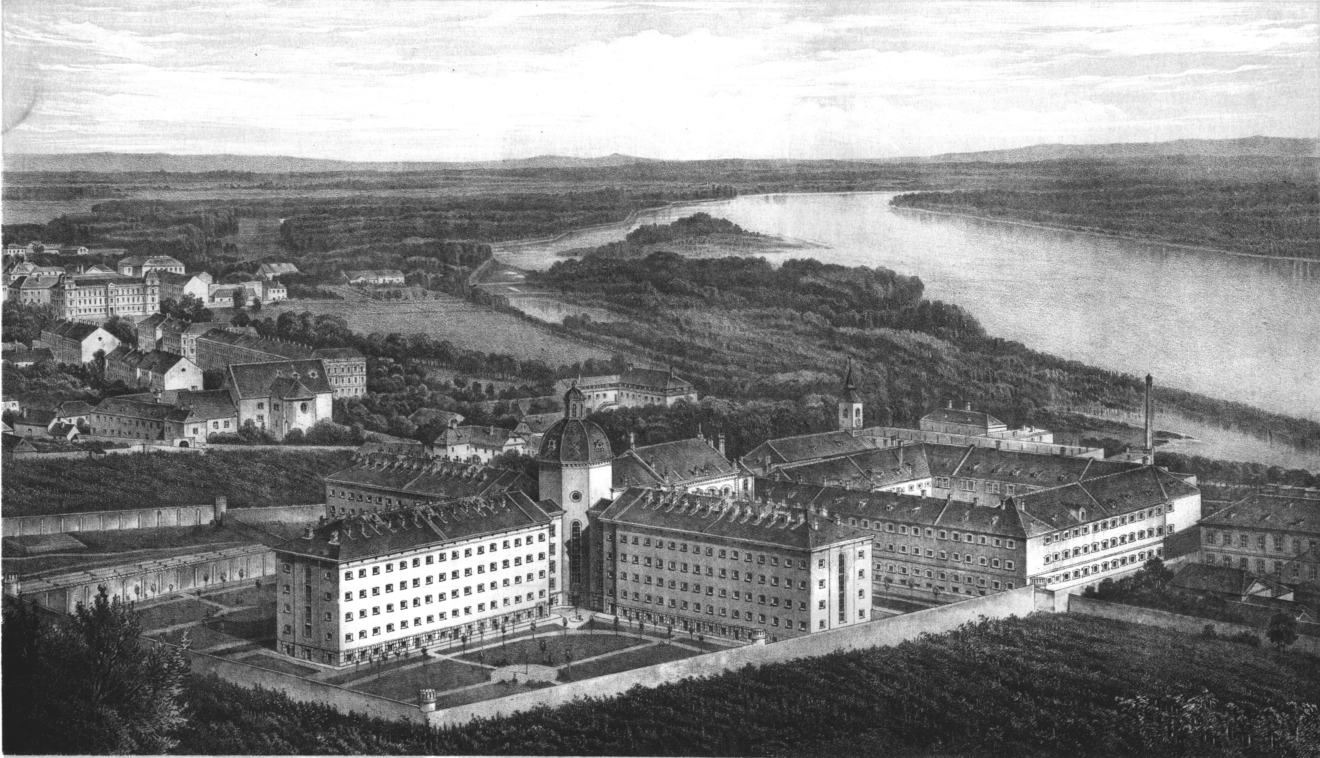 The K.K. Österreichische Zellengefängnis in Stein an der Donau (kaiserlich und königlich austrian cellsprison in Stein at the Donau) was built in 1875 as a major prison of the austro-hungarian monarchie.